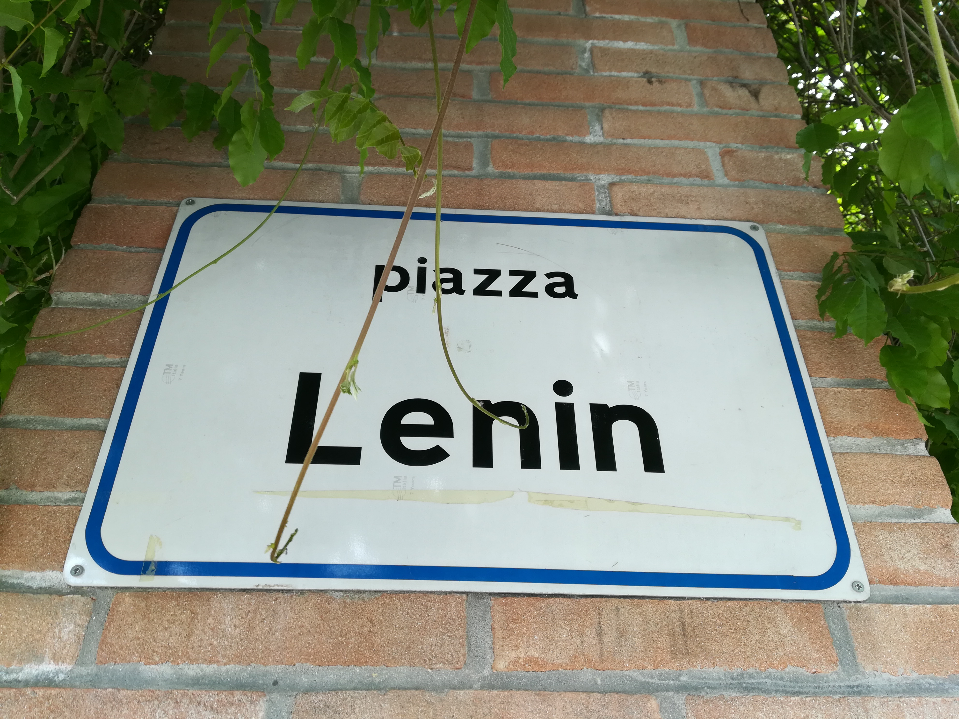 Lenin Square, Cavriago (Province of Reggio Emilia)